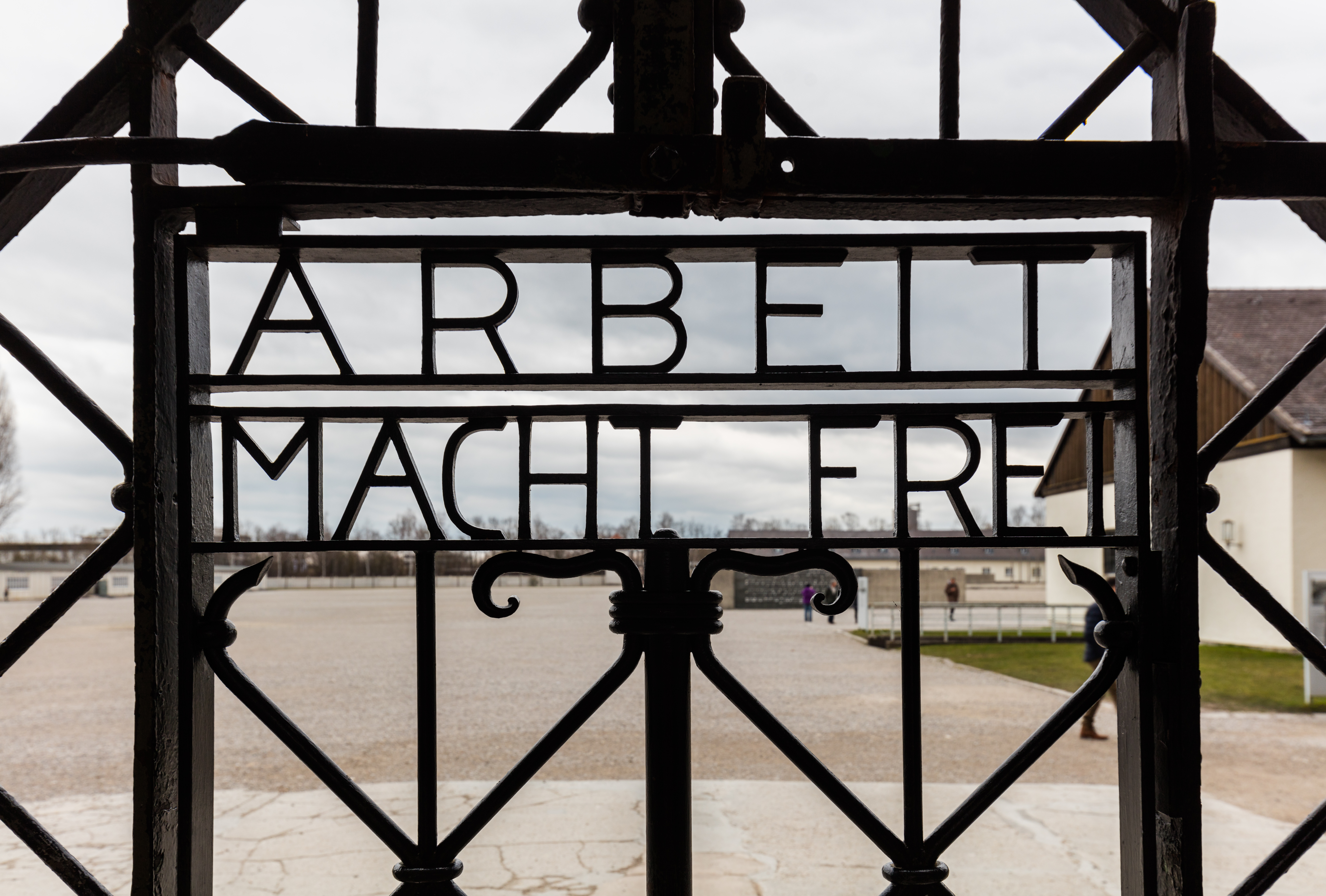 Entrance to the concentration camp of Dachau, Germany